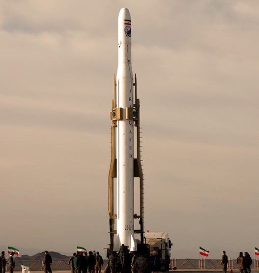 First launch of the Qased SLV.